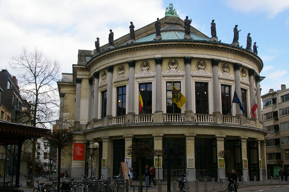 Bourla Theater, Antwerp, designed by Pierre Bruno Bourla (1827–1834).